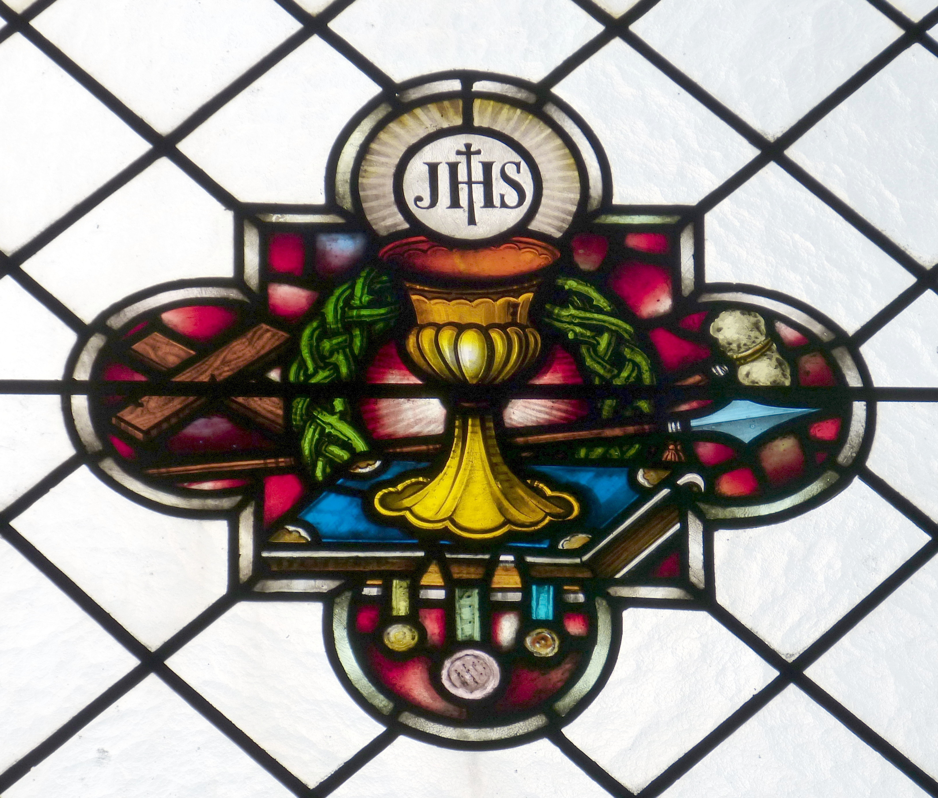 Wildenranna ( Wegscheid / Lower Bavaria ). Our Lady of Sorrows parish church ( 1906 ) - Stained glass window showing the symbols of eucharist.